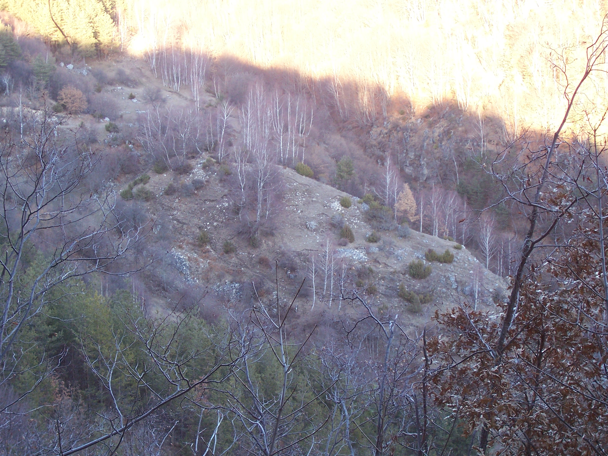 Remains of a medieval building north of the village of Kochan.